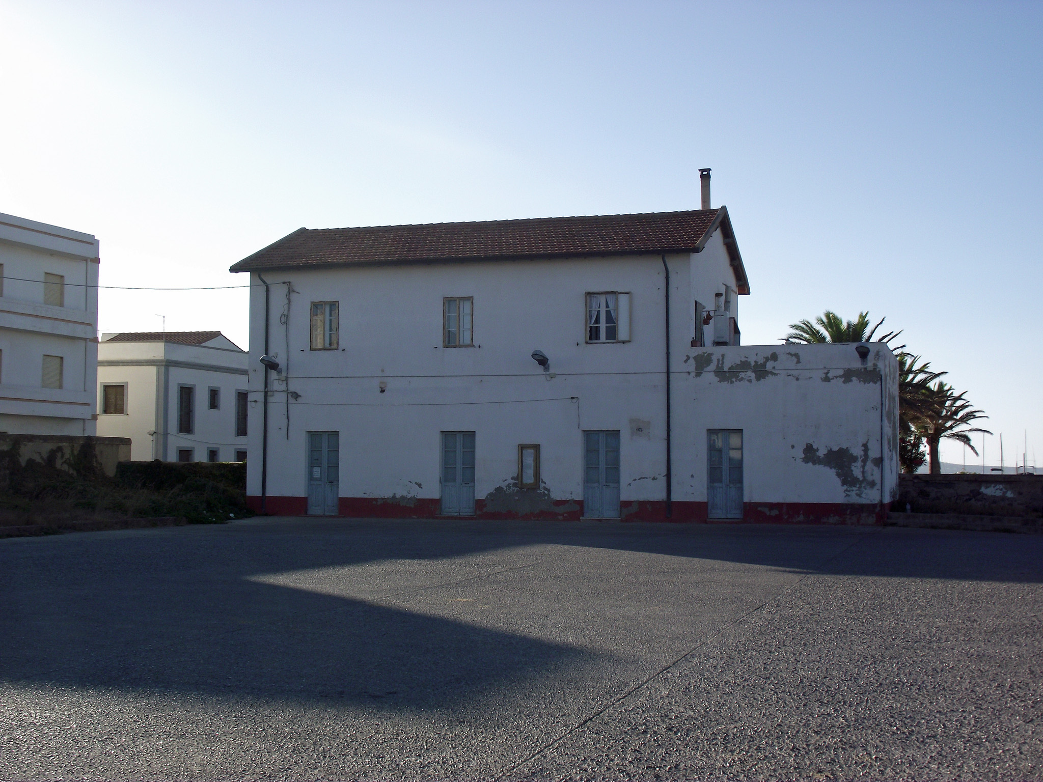 The former FMS railway station of Calasetta, Sardinia, Italy, terminus of the railway Siliqua-San Giovanni Suergiu-Calasetta, closed in 1974.